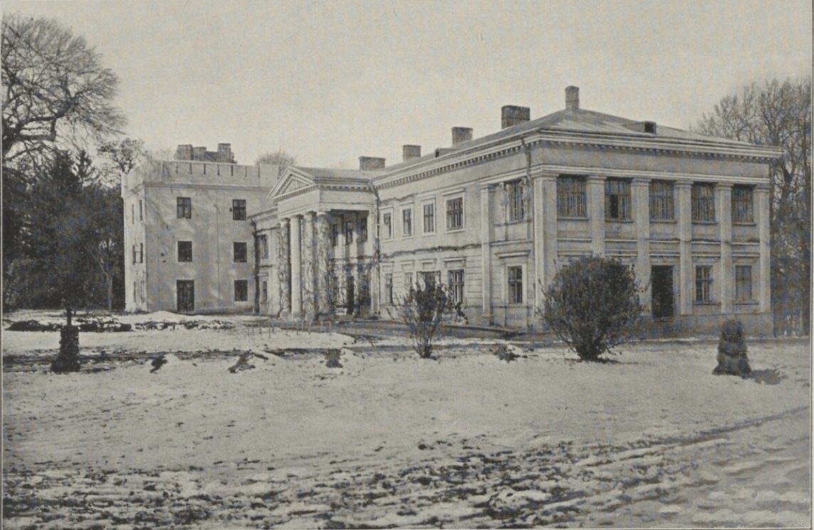 Palace in Balice near Przemyśl in Poland. Property of Skibniewski family (photo published in a book: "Archiwum rodzinne Skibniewskich" (Lwów 1912)